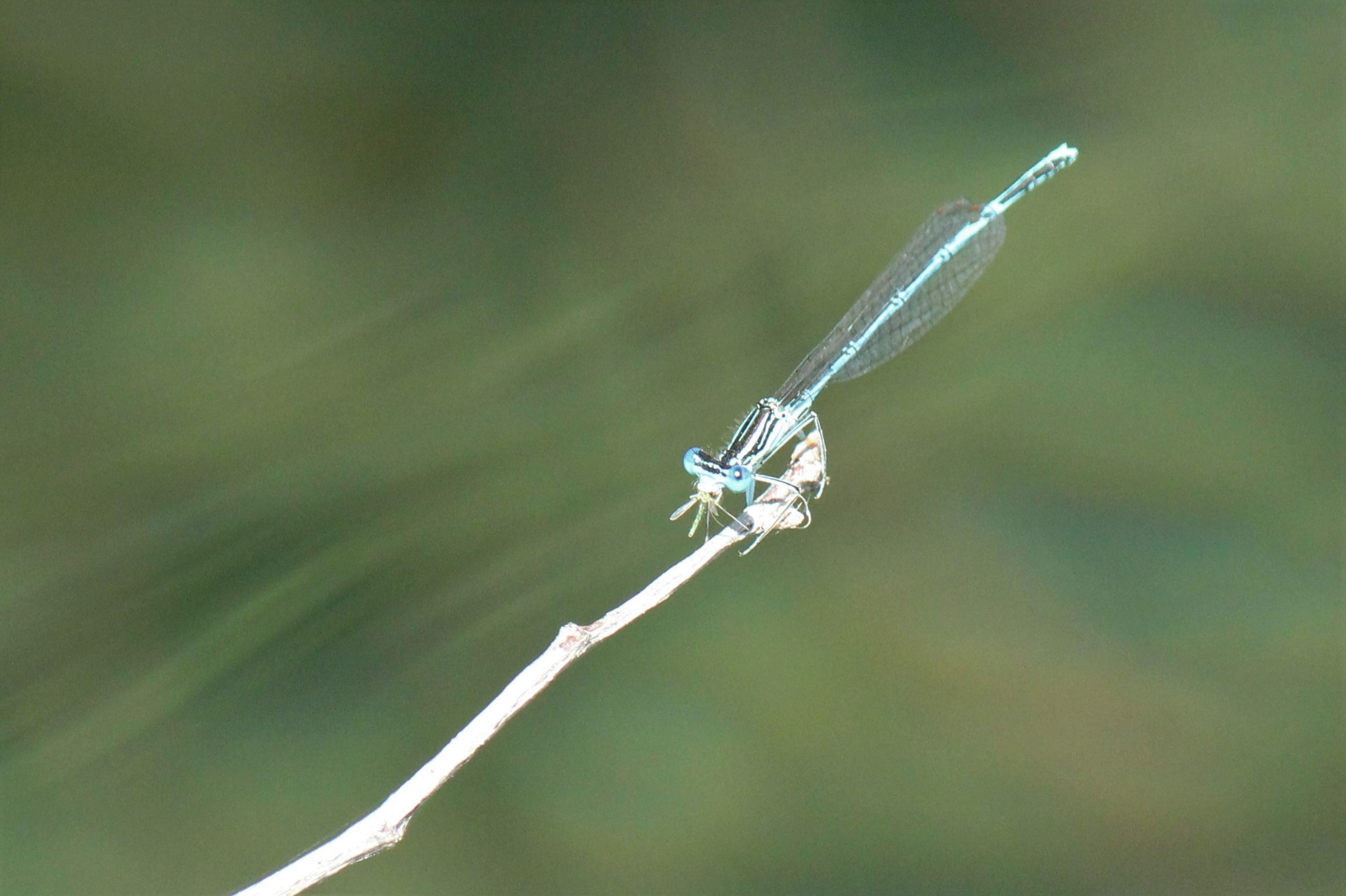 Odonata eating an insect